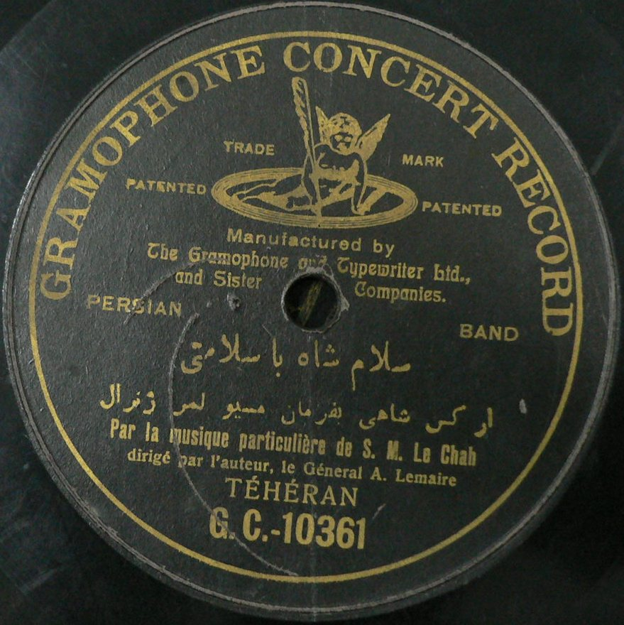 Label of salam-e shah or the first national anthem of Persia (Iran). This label was published by Mr. Amir Mansour in his website (